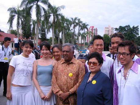 Sellapan Ramanathan (born 3 July 1924), commonly known as S.R. Nathan, who has been President of Singapore since 1 September 1999. He is pictured with his wife Urmila (Uma) Nandey at the BBCares Carnival.